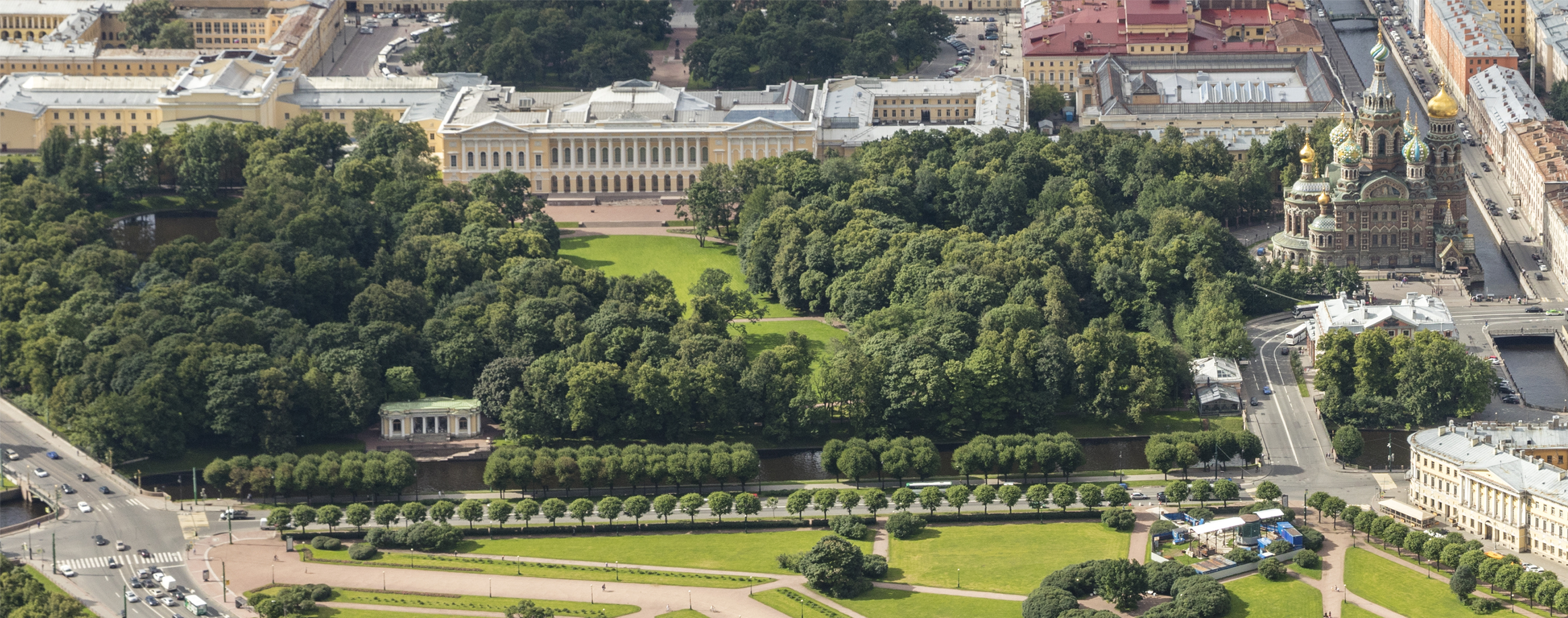 The Field of Mars or Marsovo Polye (Ма́рсово по́ле) in the center of Saint Petersburg, Russia.